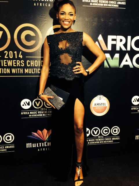 Nollywood actress Chelsea Eze at the 2014 Africa Magic Viewers Choice Awards in Lagos